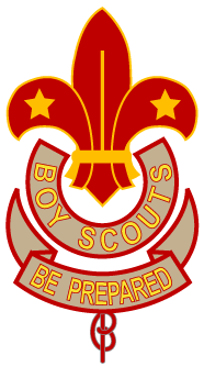 Boy Scout Association , logo 1920-1967